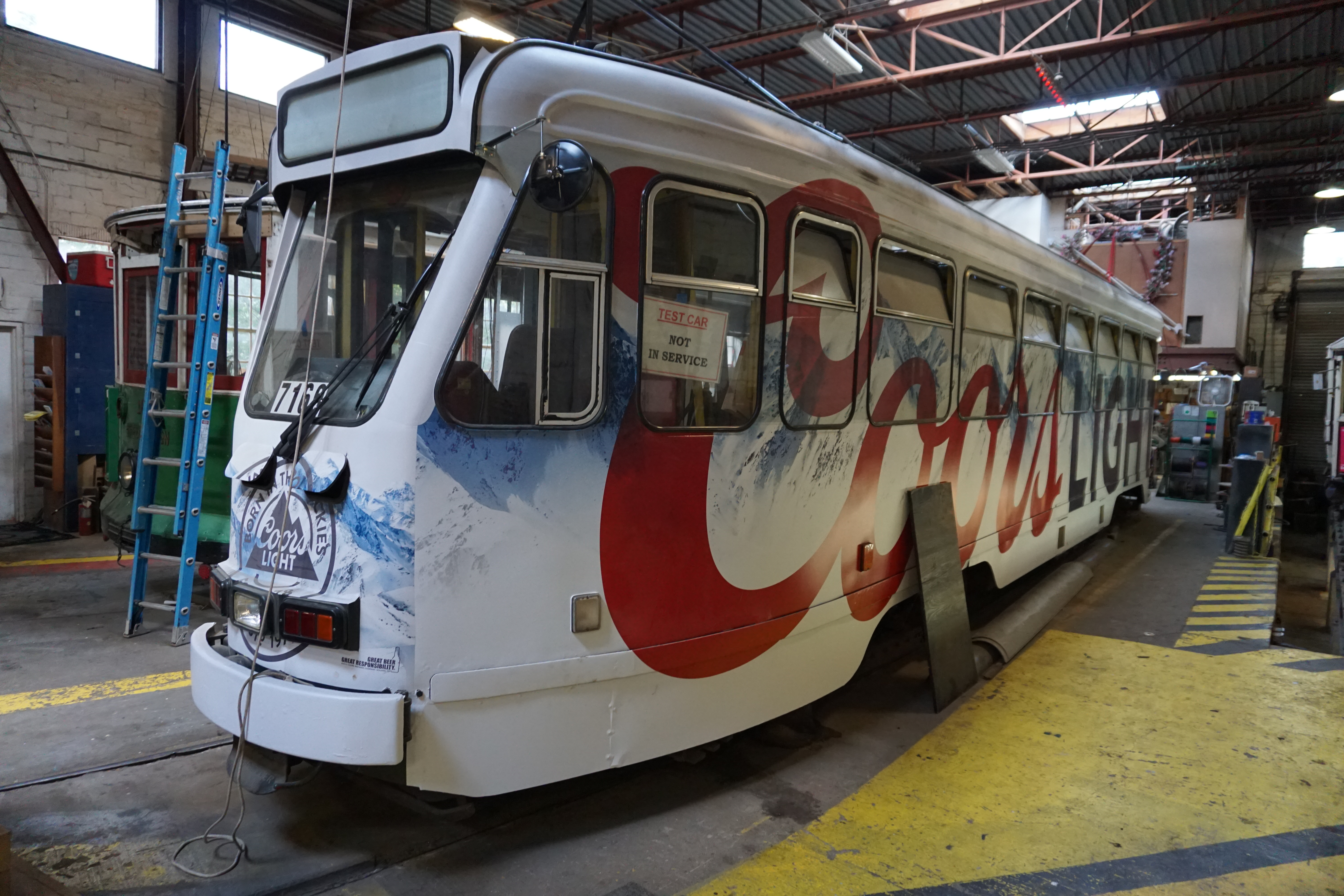 McKinney Avenue Transit Authority streetcar Emma (No. 7169) inside the car barn in Dallas, Texas (United States).